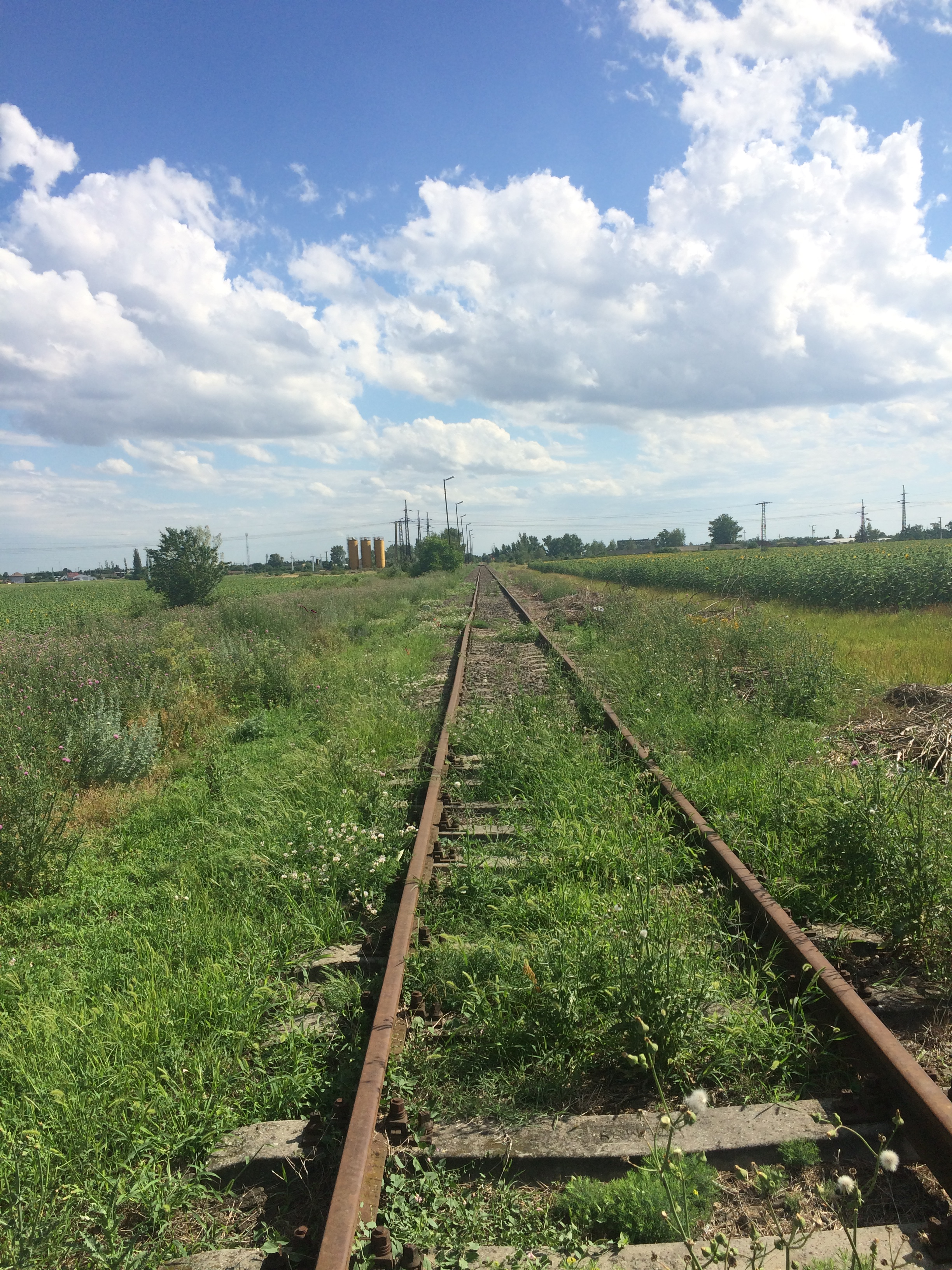 The old rail line linking Mezőtúr and Túrkeve. This photo is facing towards Mezőtúr. Behind the camera is the final portions of track before ending at a buffer, behind the camera being the direction of Túrkeve. Beyond the buffer would have been the railroad, most of which has been removed.